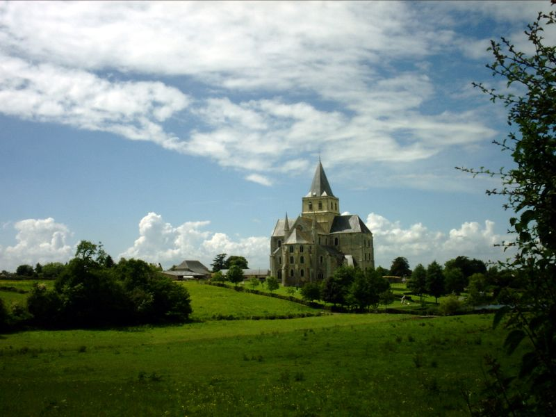 Abbaye de Cerisy-la-forêt, Manche, Normandie, France.